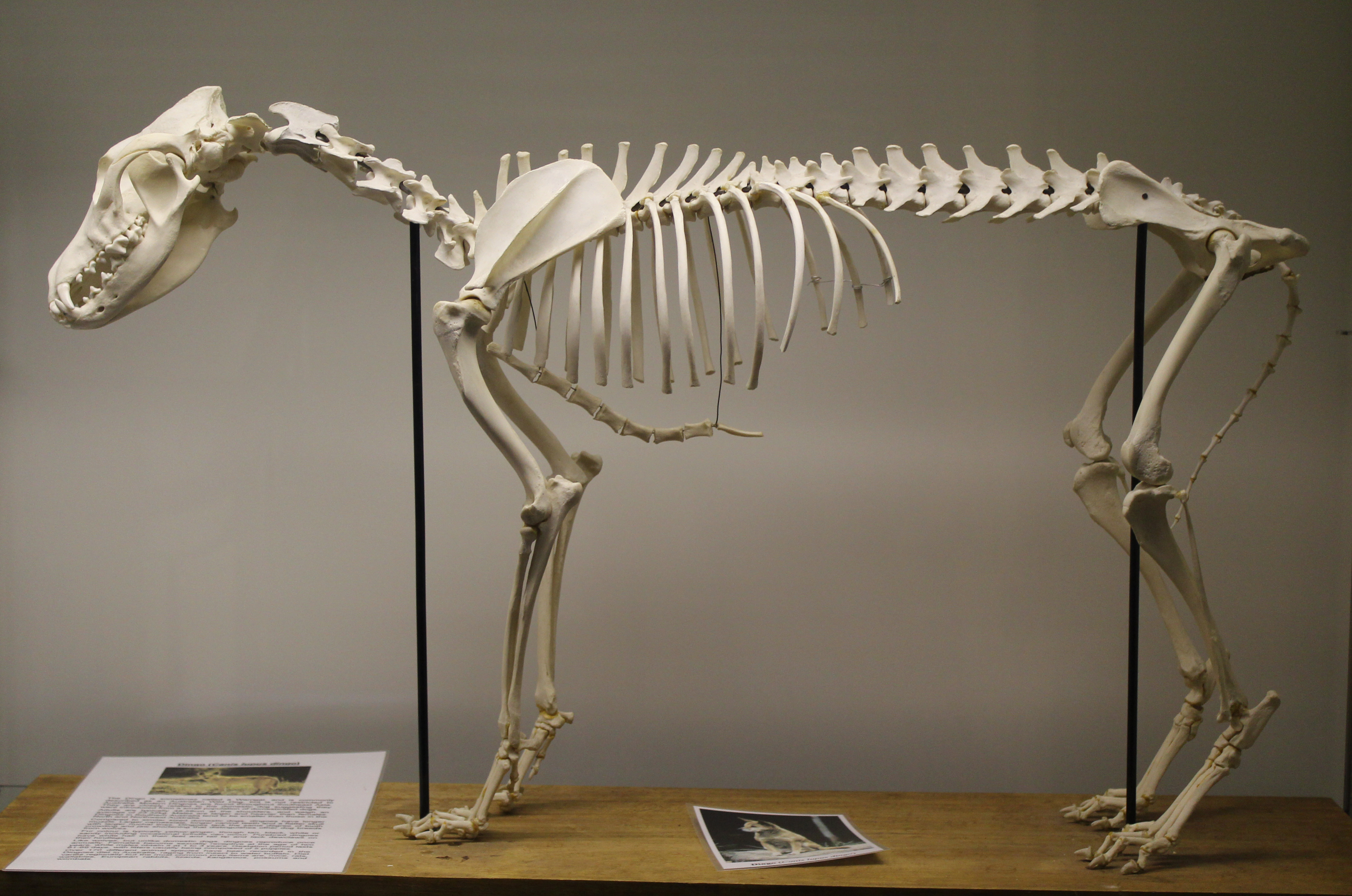 Dingo (Canis lupus dingo) skeleton at the Royal Veterinary College anatomy museum